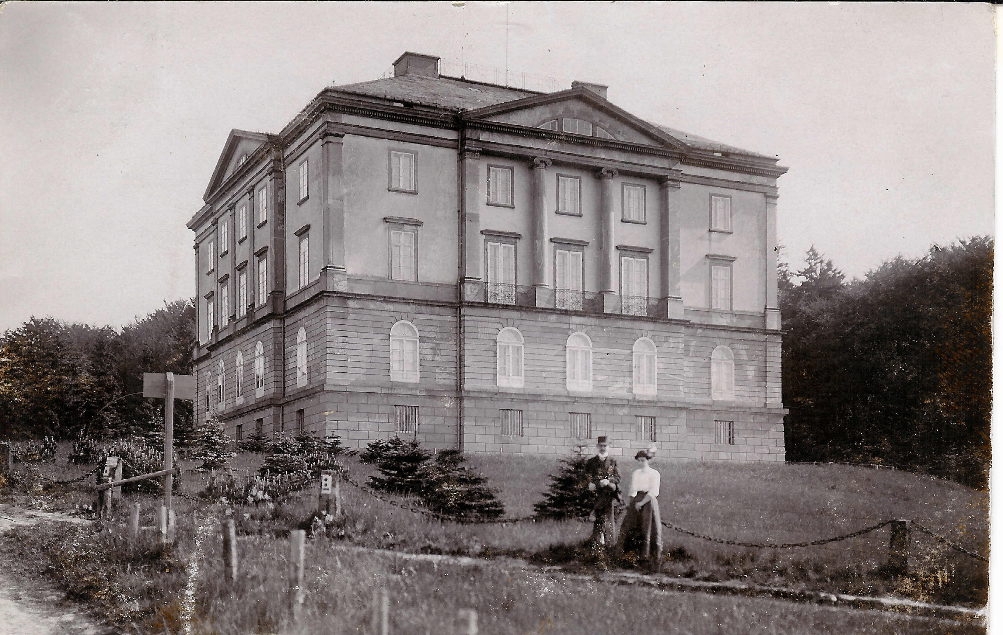 Hunting lodge Platte near Wiesbaden, Germany